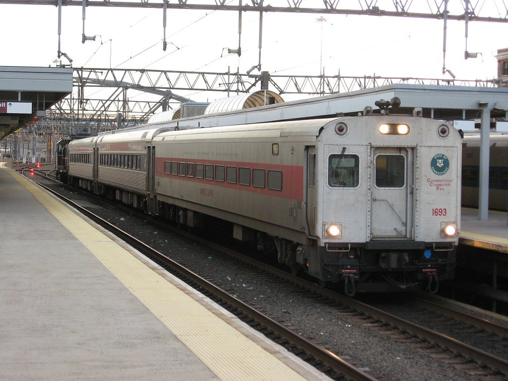 Shore Line East train 1656 getting ready to leave New Haven for Old Saybrook, CT.